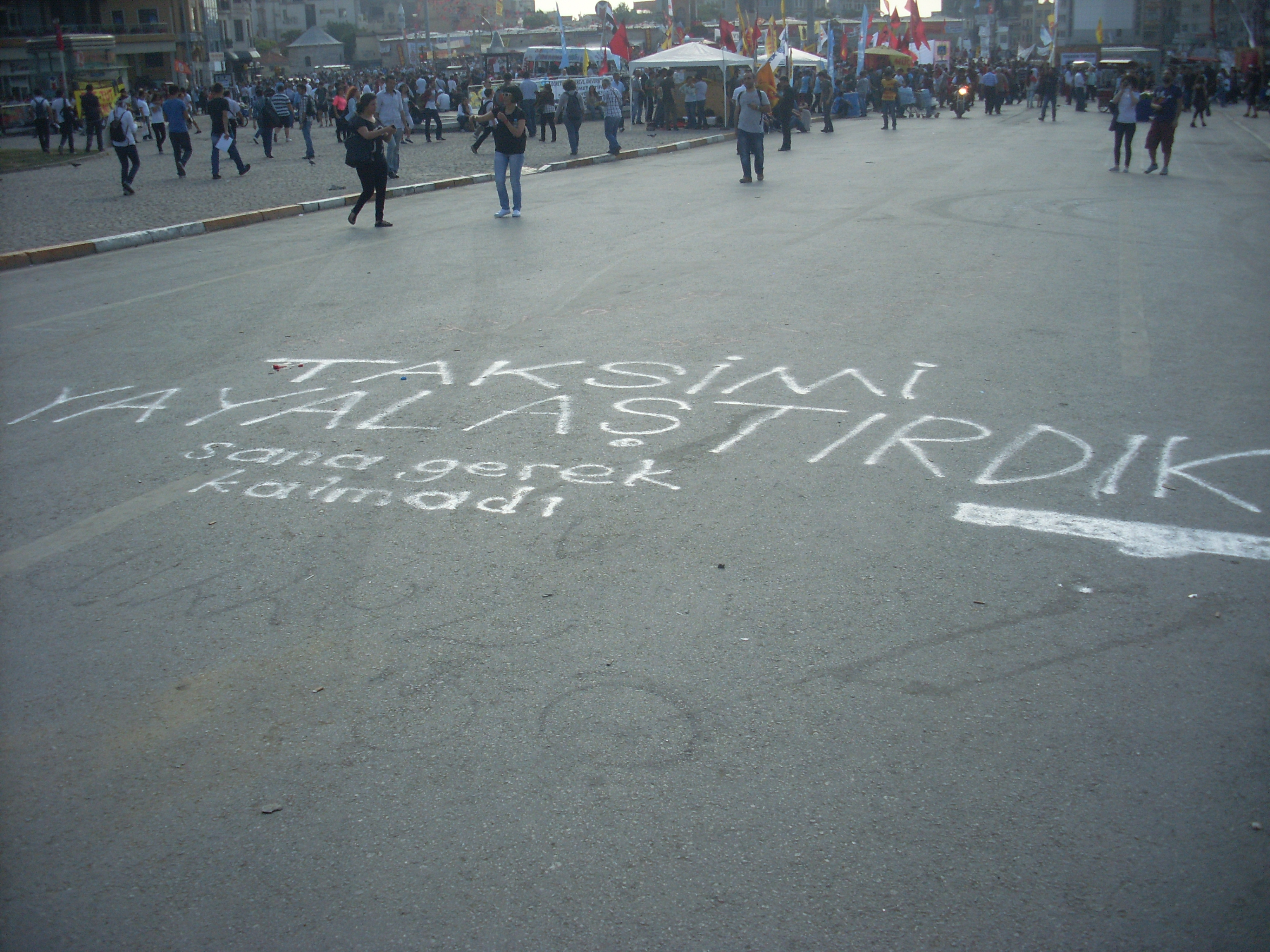 2013 Taksim Gezi Park protests, a slogan on Taksim Square, reading "Already pedestrianised"